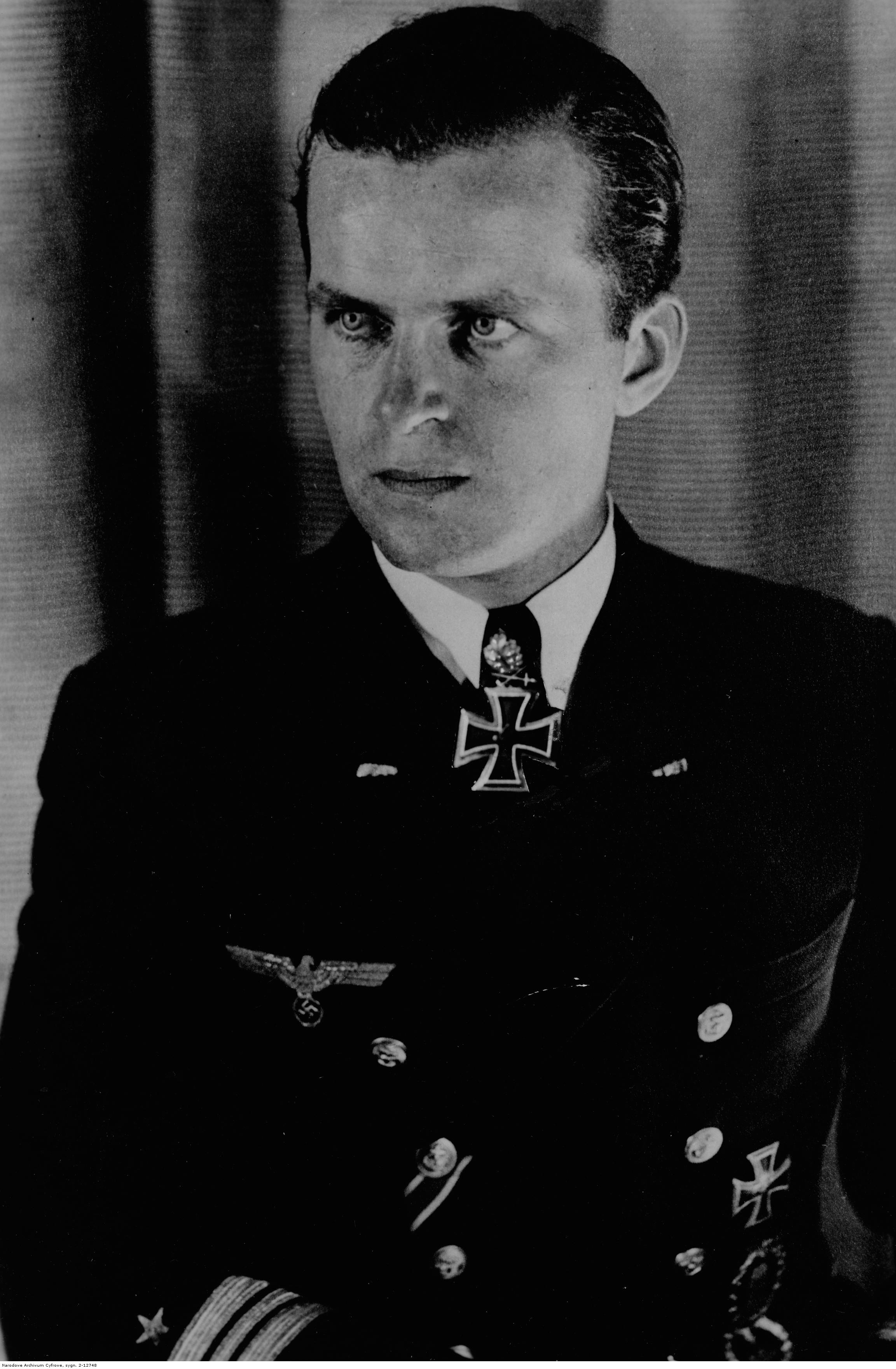 Albrecht Brandi after presentation of the Diamonds to the Knight's Cross.